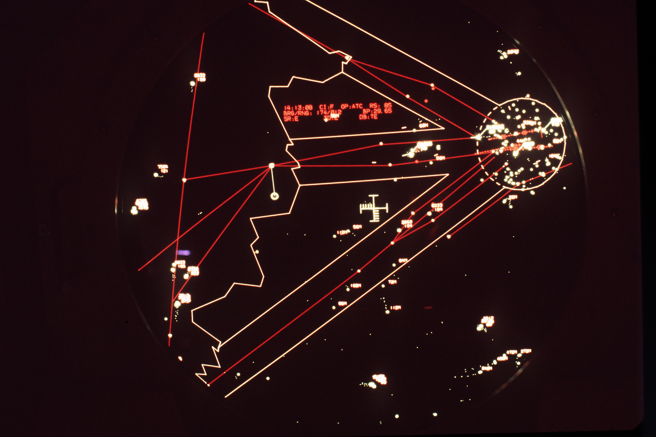 An air traffic control display of the corridors to and from West Berlin. Members of the Berlin Air Safety Center monitor civilian and military air traffic along the corridors and keep the Soviets informed of aircraft locations.